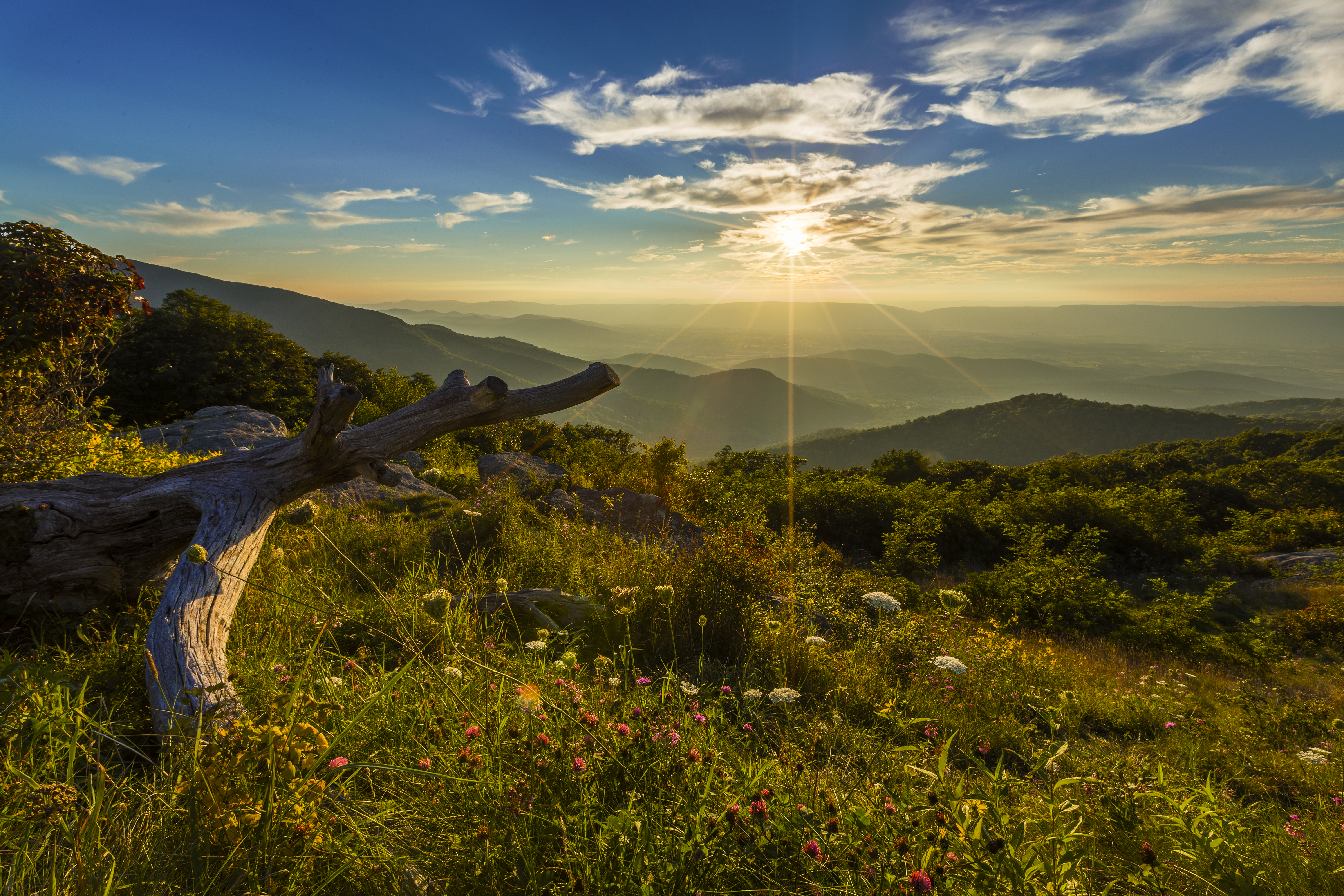 NPS | N. Lewis Timber Hollow Overlook is a splendid place to watch the sun go down....